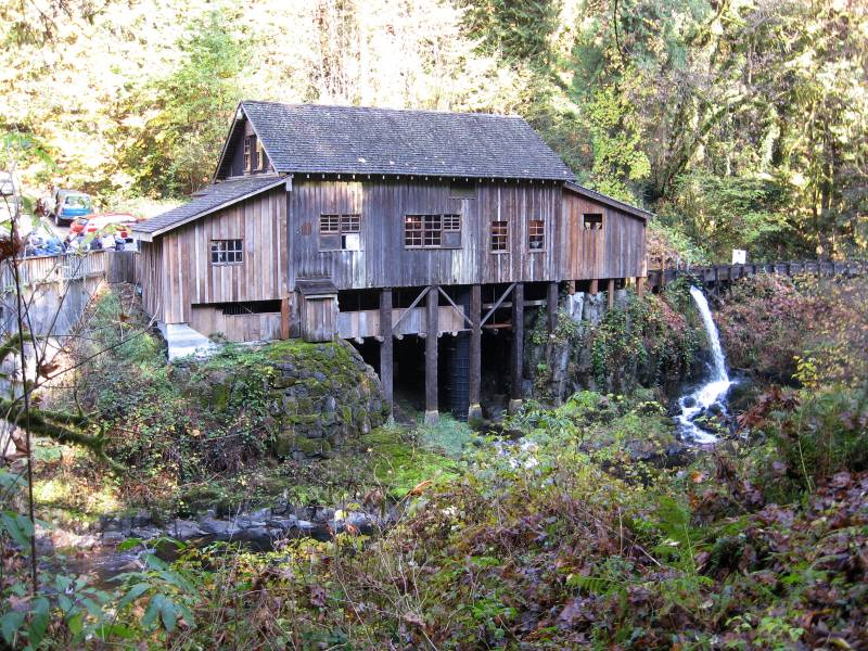 1876 water-powered grist mill near Woodland, Washington